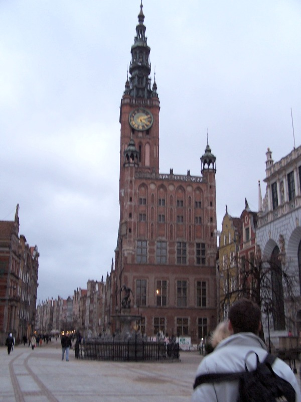 City hall in Gdansk, Poland.